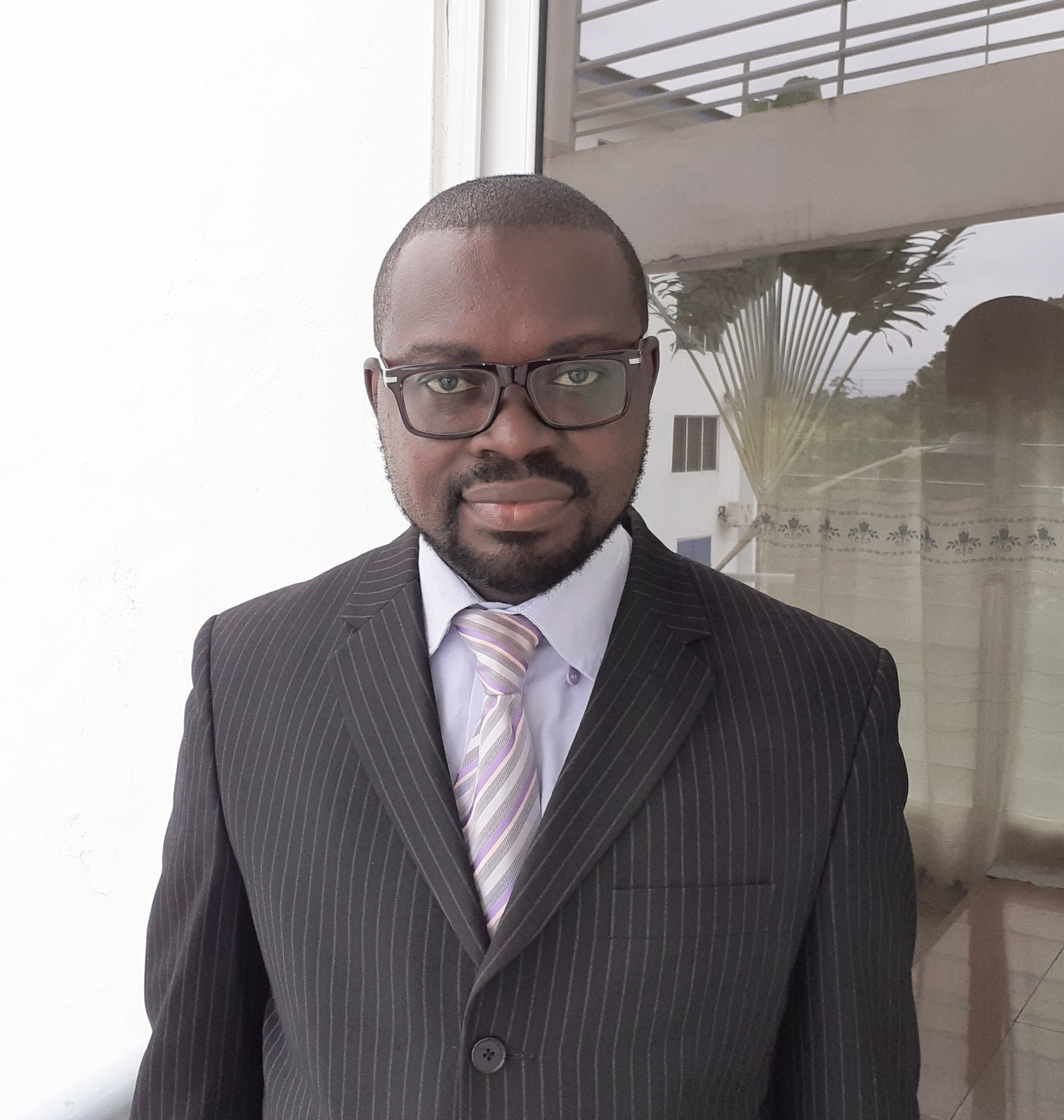 Picture of Joseph Kobla Wemakor. He is a Ghanaian journalist and human rights activist.